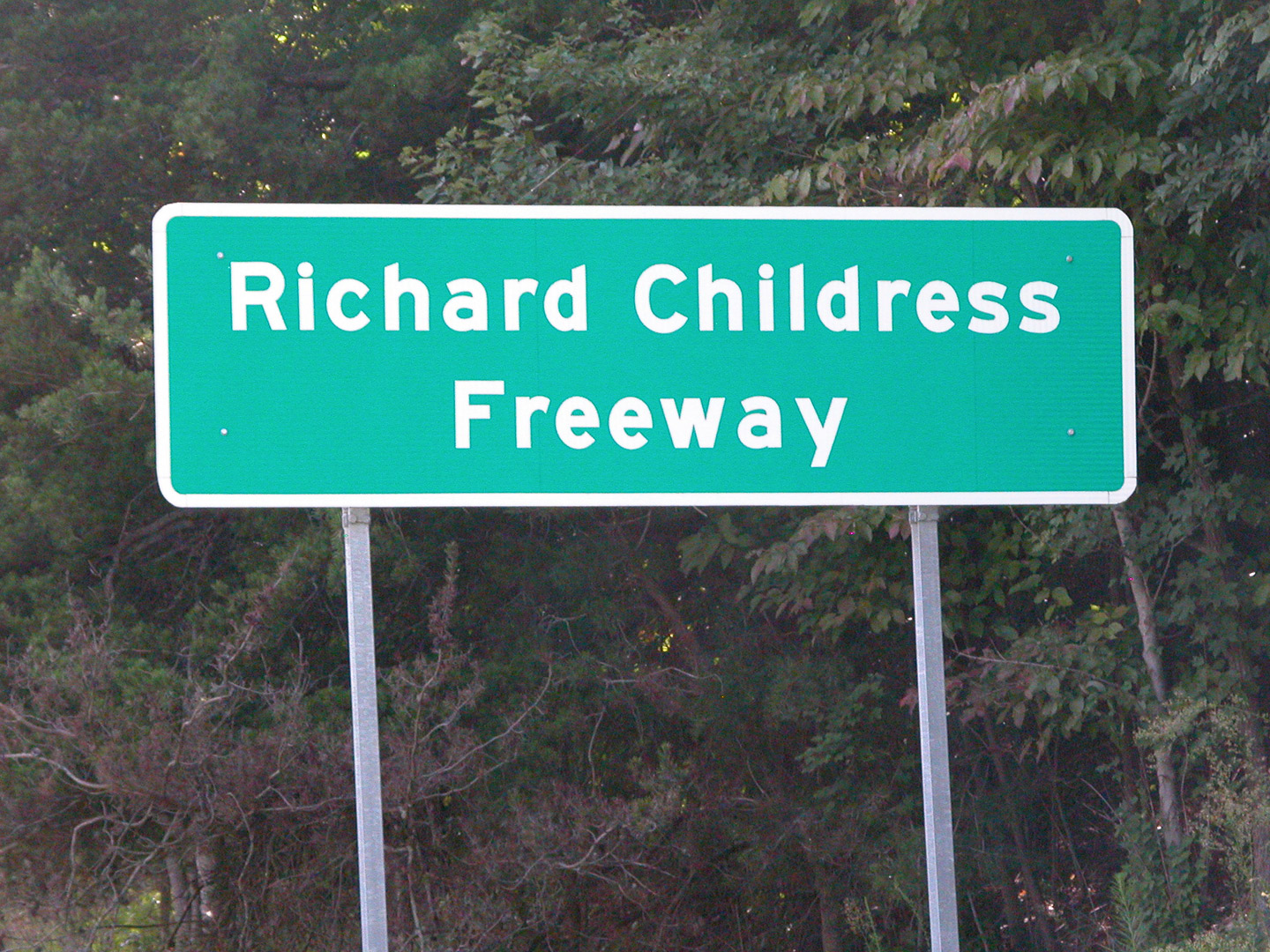 Richard Childress Freeway sign near exit 102 of I85S, near Richard Childress Vineyards.